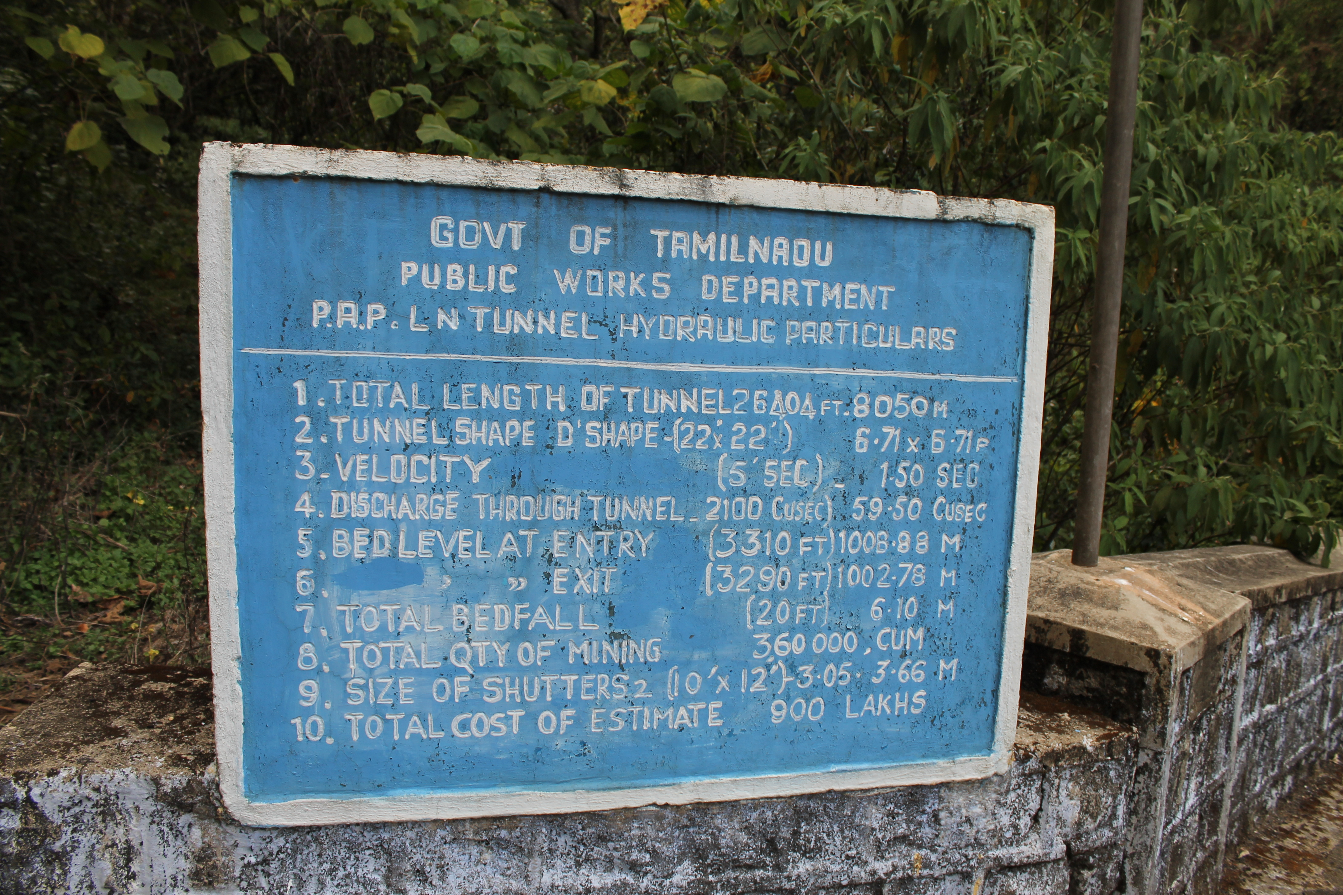 Information about the dimensions, water capacity, cost etc. of the tunnel at Sholayar Dam, Tamil Nadu, India.